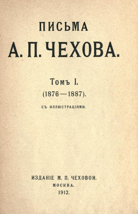 Vol 1 of Chekhov's Collected Works 1912 edition